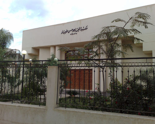 مكتبة المجاهد الشيخ حسن طوبار